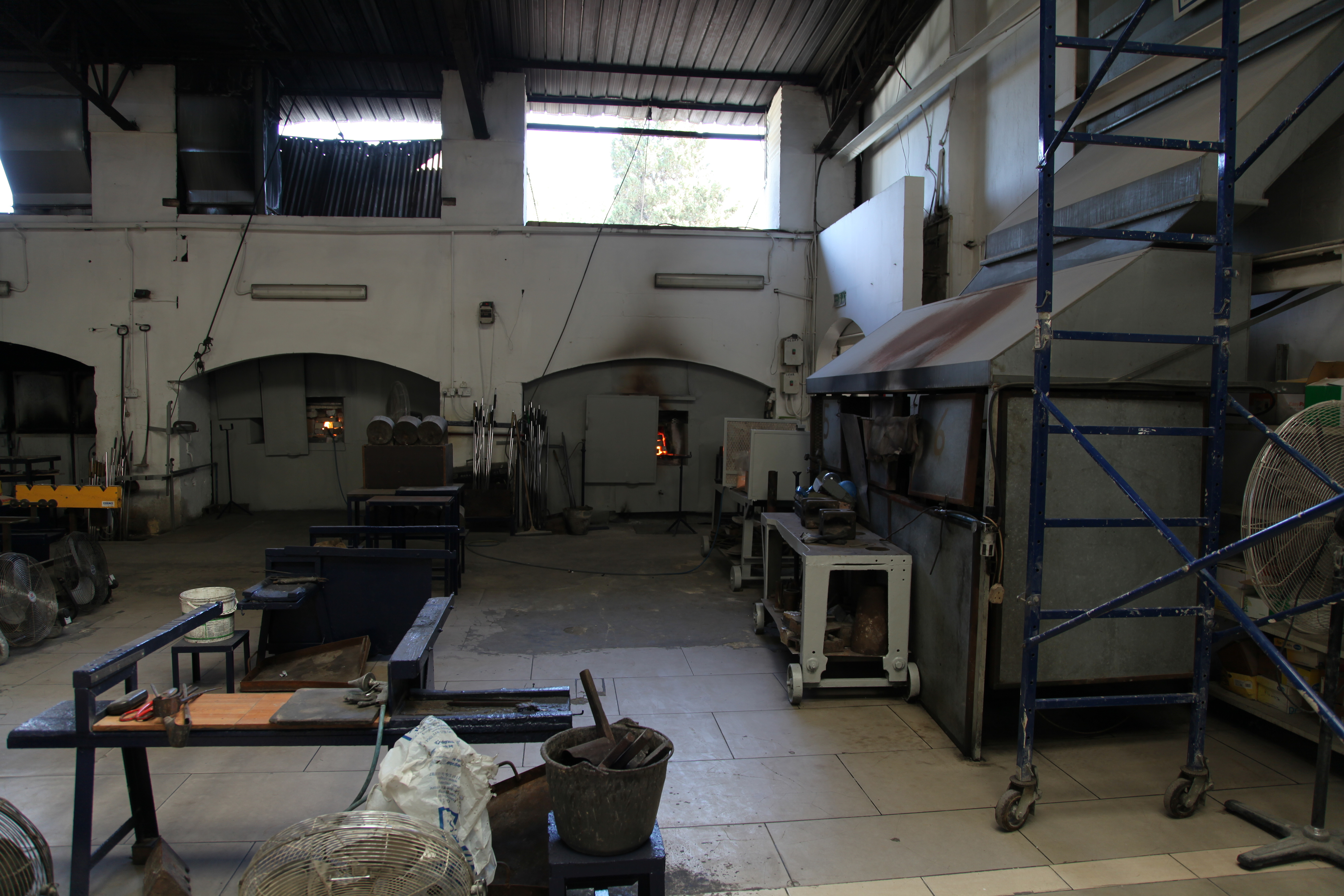 Mdina Glass factory at Ta' Qali in Attard, Malta